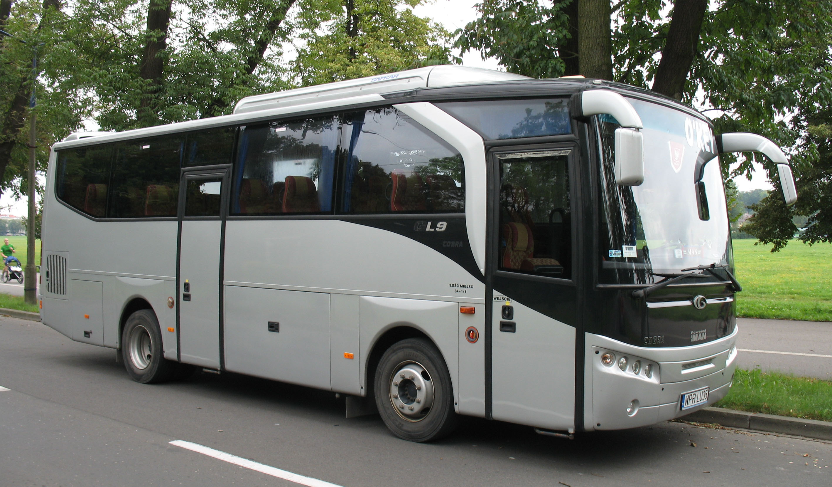 Güleryüz Cobra GL 9 bus in Kraków, Poland. Built 2007, Włodarczyk from Pruszków operator.